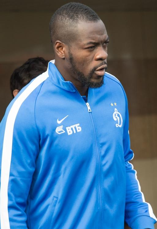 Christopher Samba with FC Dynamo Moscow before the game against PFC CSKA Moscow.